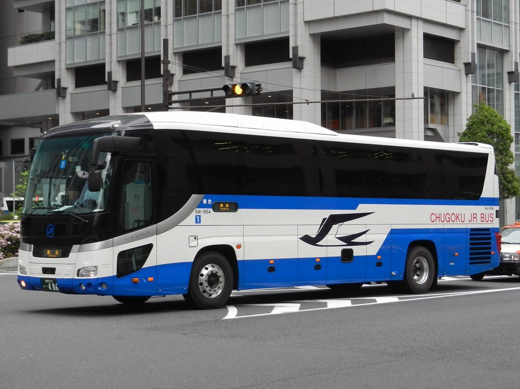 Chugoku JR bus Isuzu Gala (LKG-RU1ESBJ) for night highwaybus